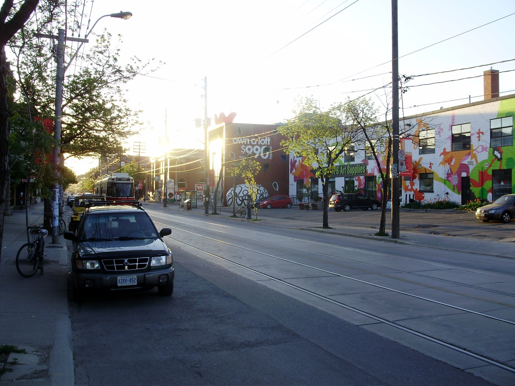 Looking east down Queen Street West in Toronto, Canada's Gallery District.